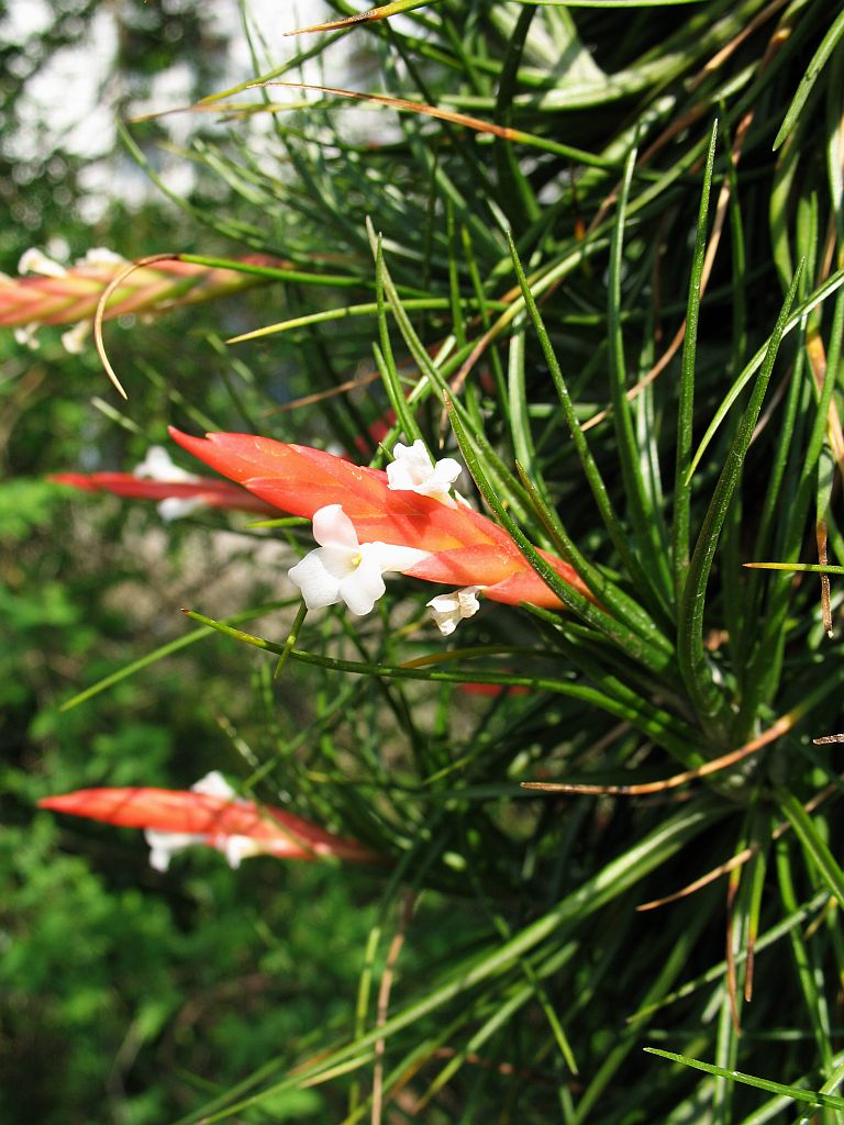 Tillandsia caulescens in cultivation at the Botanical Garden of Heidelberg, Germany.